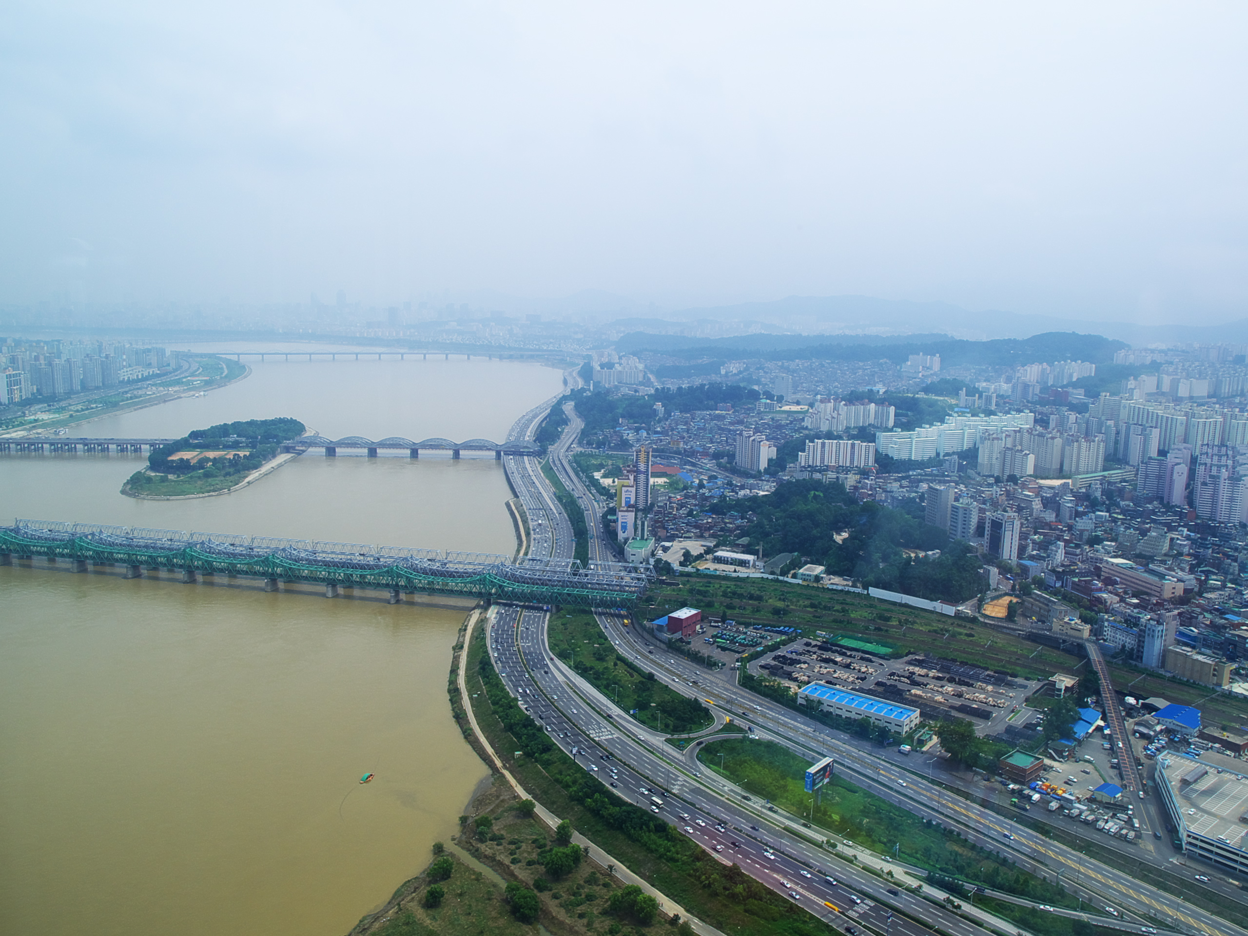 Hangang Bridge and Hangang Railway Bridge running from Dongjak-gu over Nodeul Island on Han RiverHan river